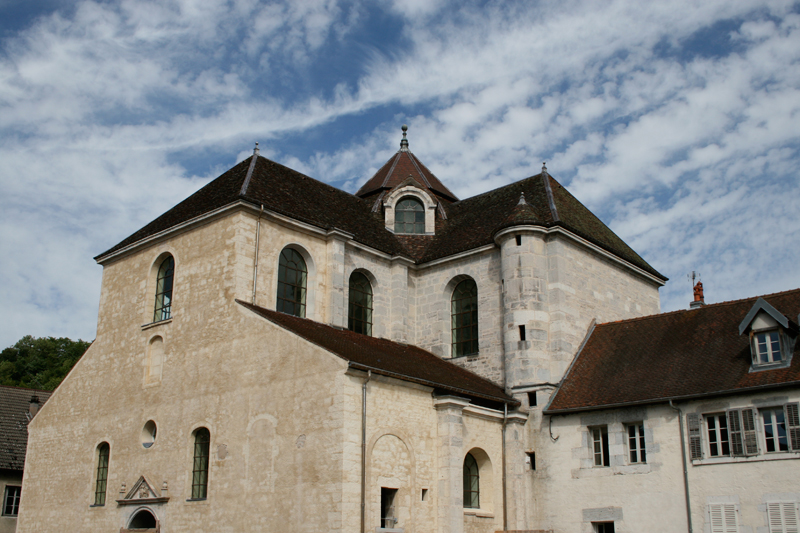 Baume-les-Dames abbey, ancient abbey at Doubs department, France